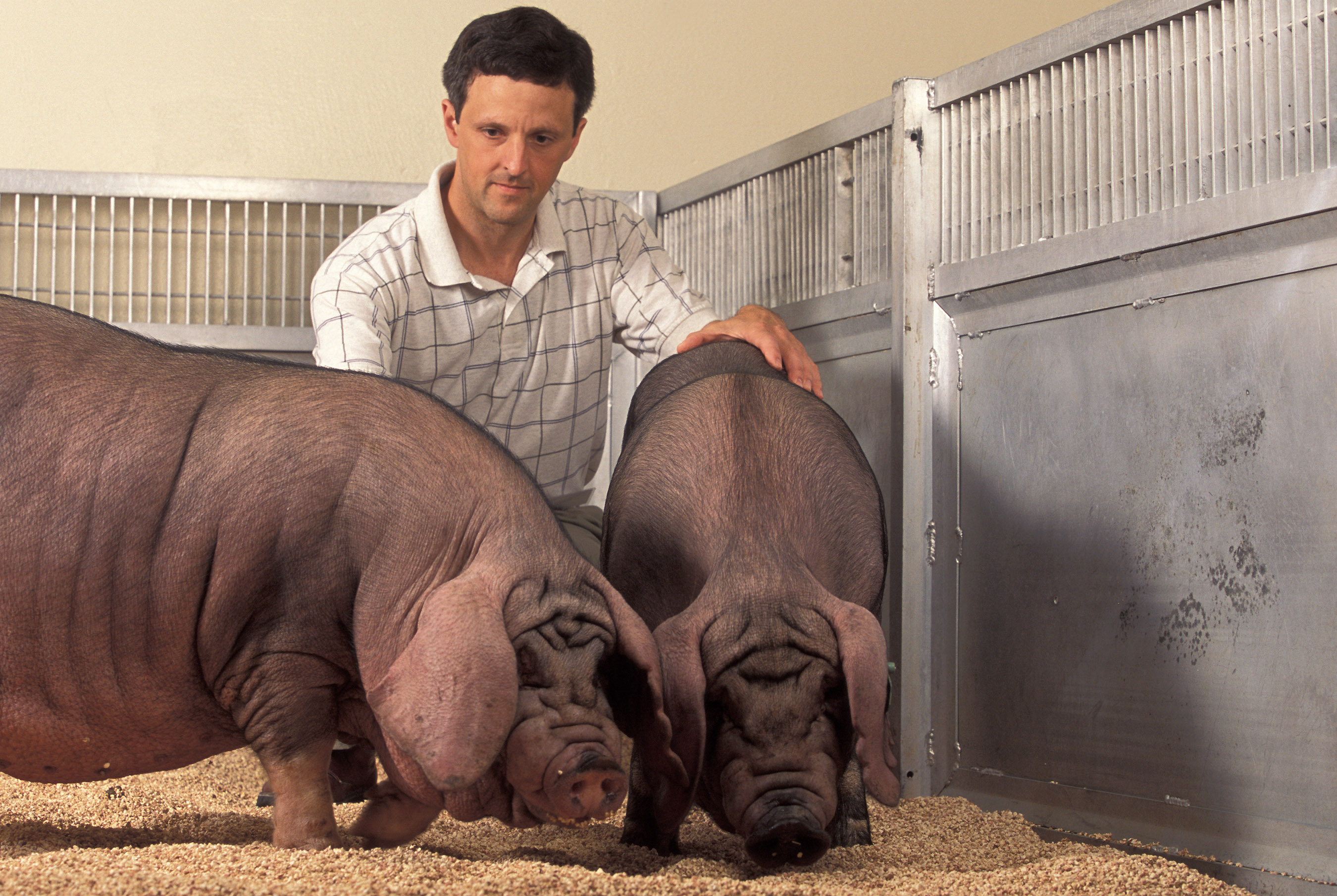 Geneticist Gary Rohrer examines Meishan pigs at the ARS Roman L. Hruska U.S. Meat Animal Research Center in Clay Center Nebraska.